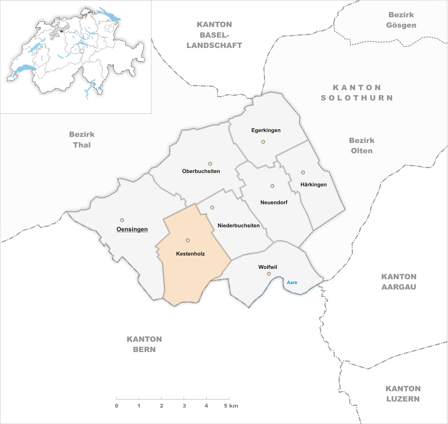 Municipality Kestenholz